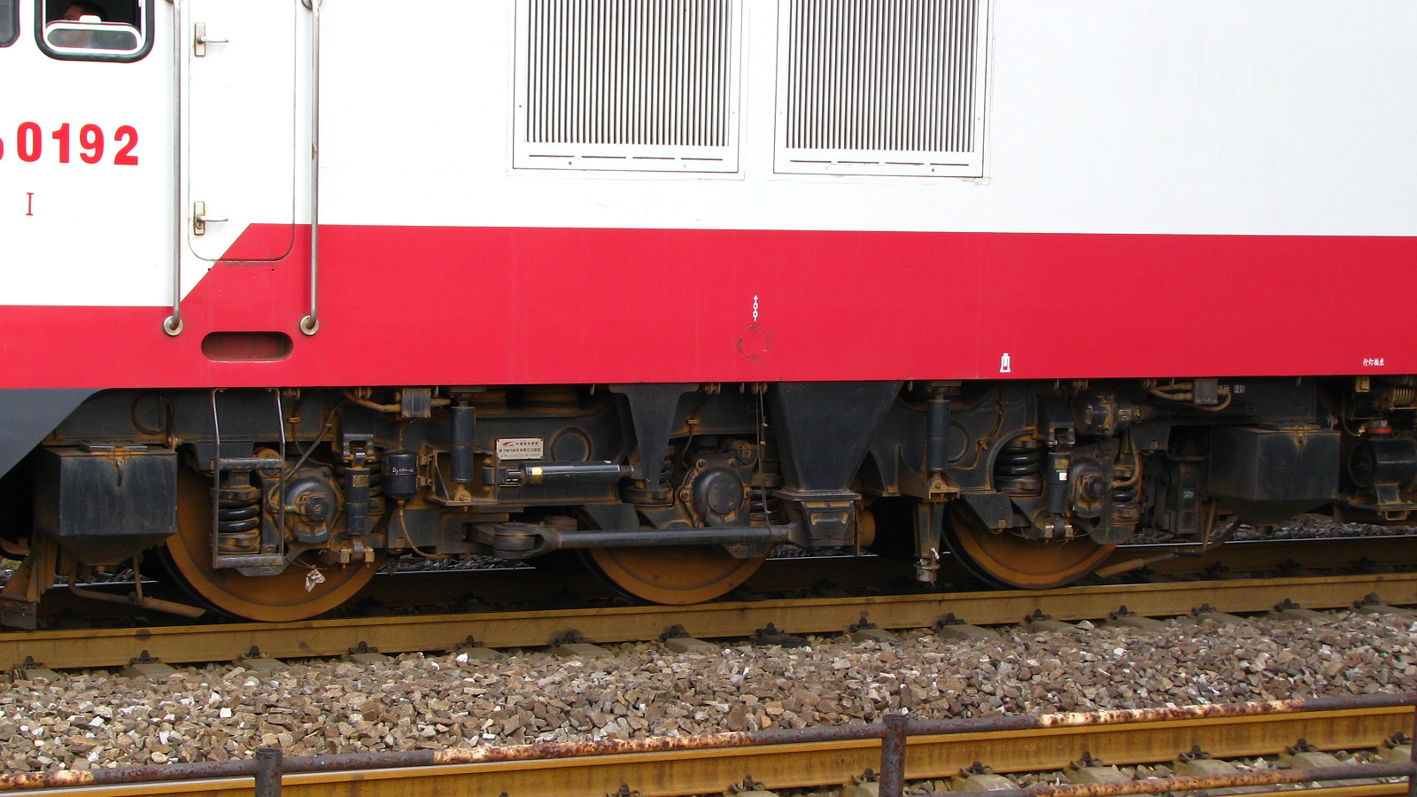 The bogie of a China Railways SS9 electric locomotive